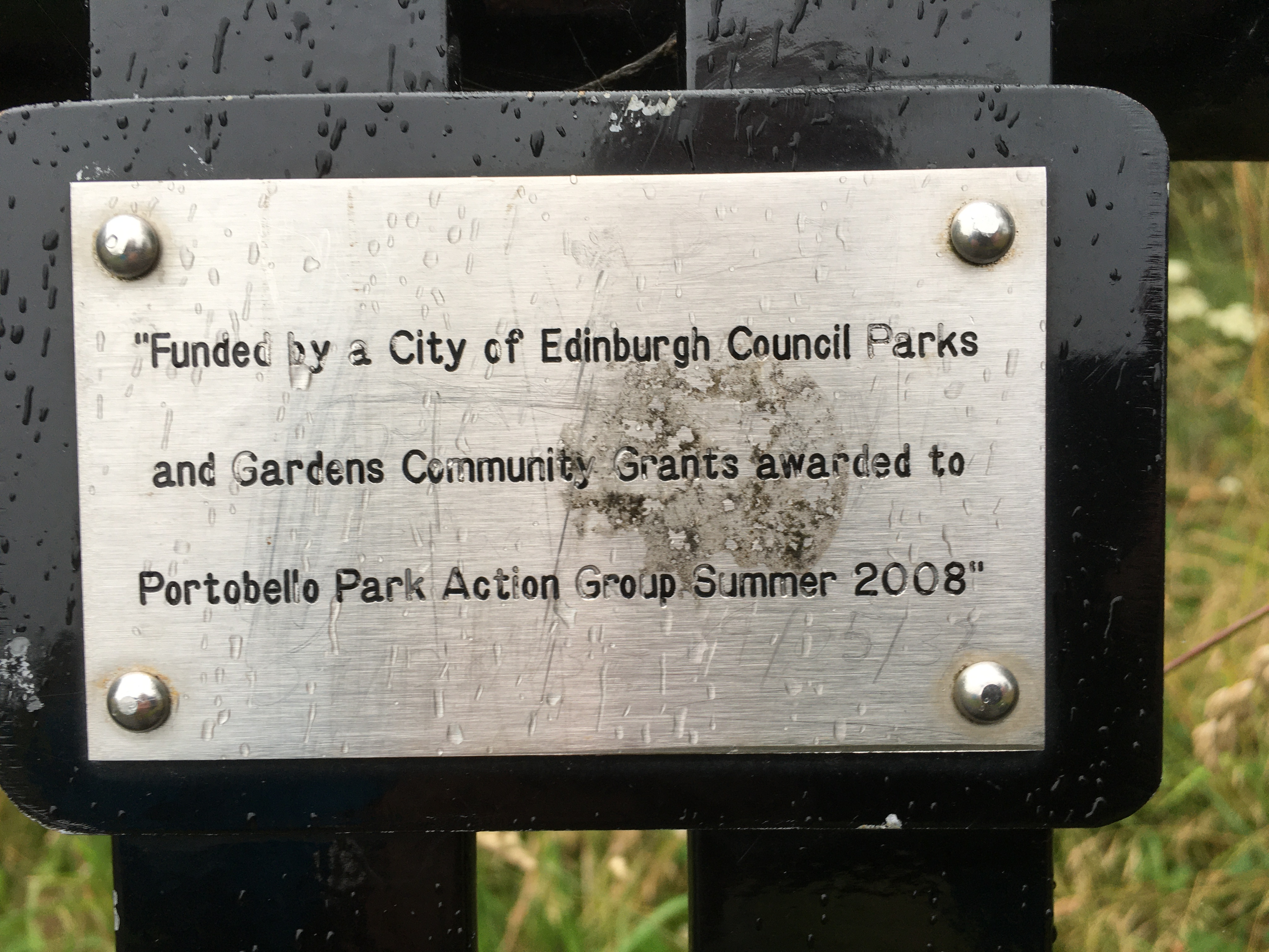 A grant was awarded in 2008 by the City of Edinburgh Council Parks and Gardens Community Grants to the Portobello Park Action Group